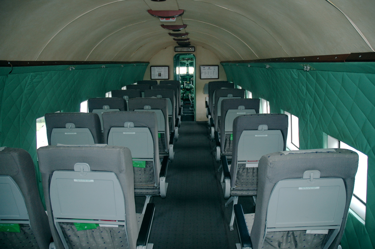 Passenger cabin of the Lisunov Li-2 (reg. HA-LIX, Budaörs, Hungary)